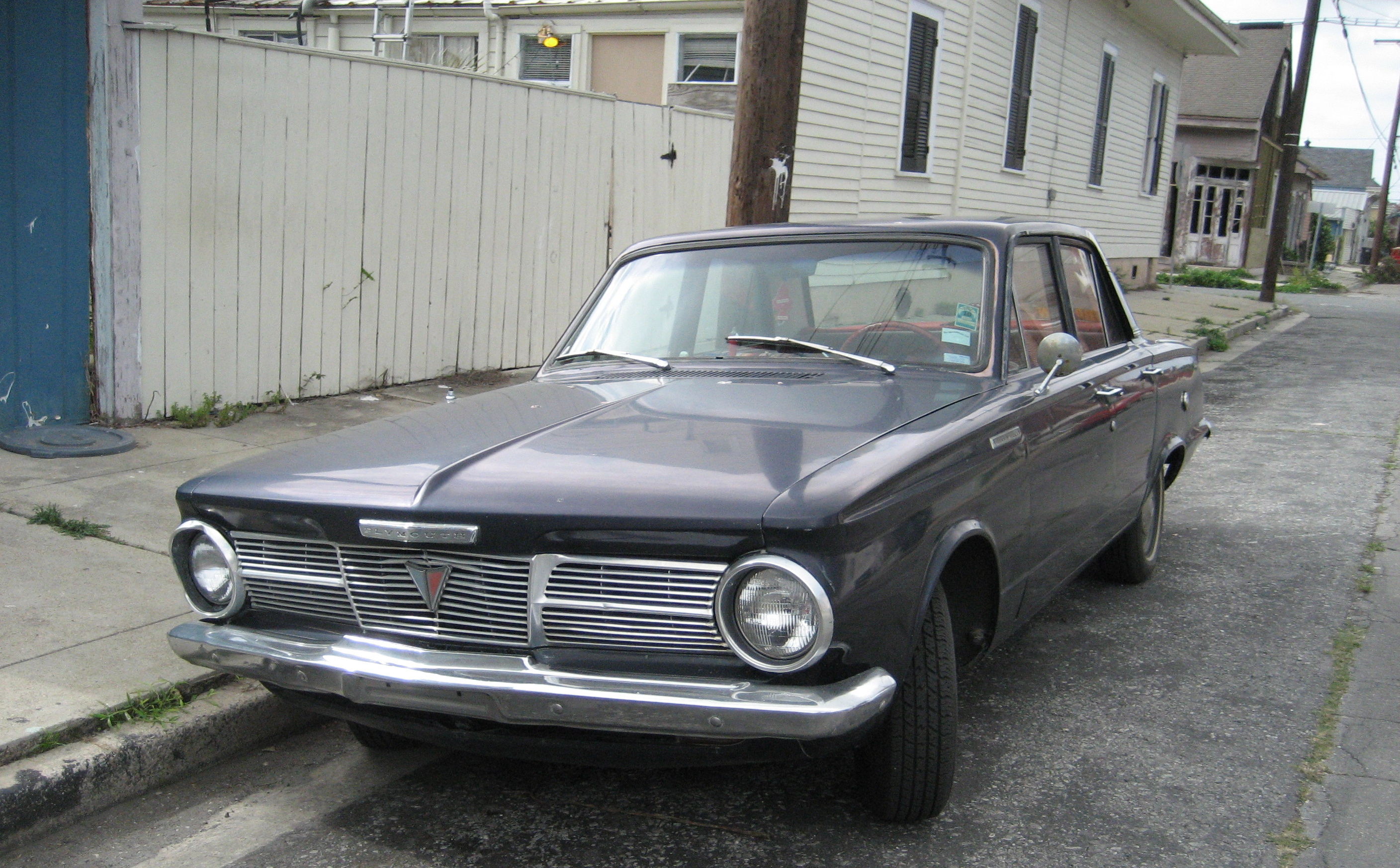 Plymouth Valiant 100 of some 40 years ago seen on street in New Orleans